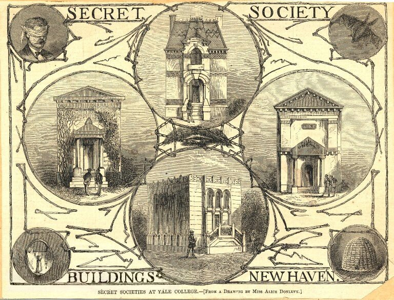 "Secret Society Buildings New Haven," from a drawing by Miss Alice Heighes Donlevy (1846-1929), as noted on the image. Pictured are: Psi Upsilon (Beta Chapter), 120 High Street. Left center: Skull & Bones (Russell Trust Association), 44 High Street. Right center: Delta Kappa Epsilon (Phi Chapter), east side of York Street, south of Elm Street. Bottom: Scroll and Key (Kingsley Trust Association), 490 College Street. Alice Donlevy was the author of a book on illustration called "Practical Hints on the Art of Illumination," published by A. D. F. Randolph, New York, 1867.